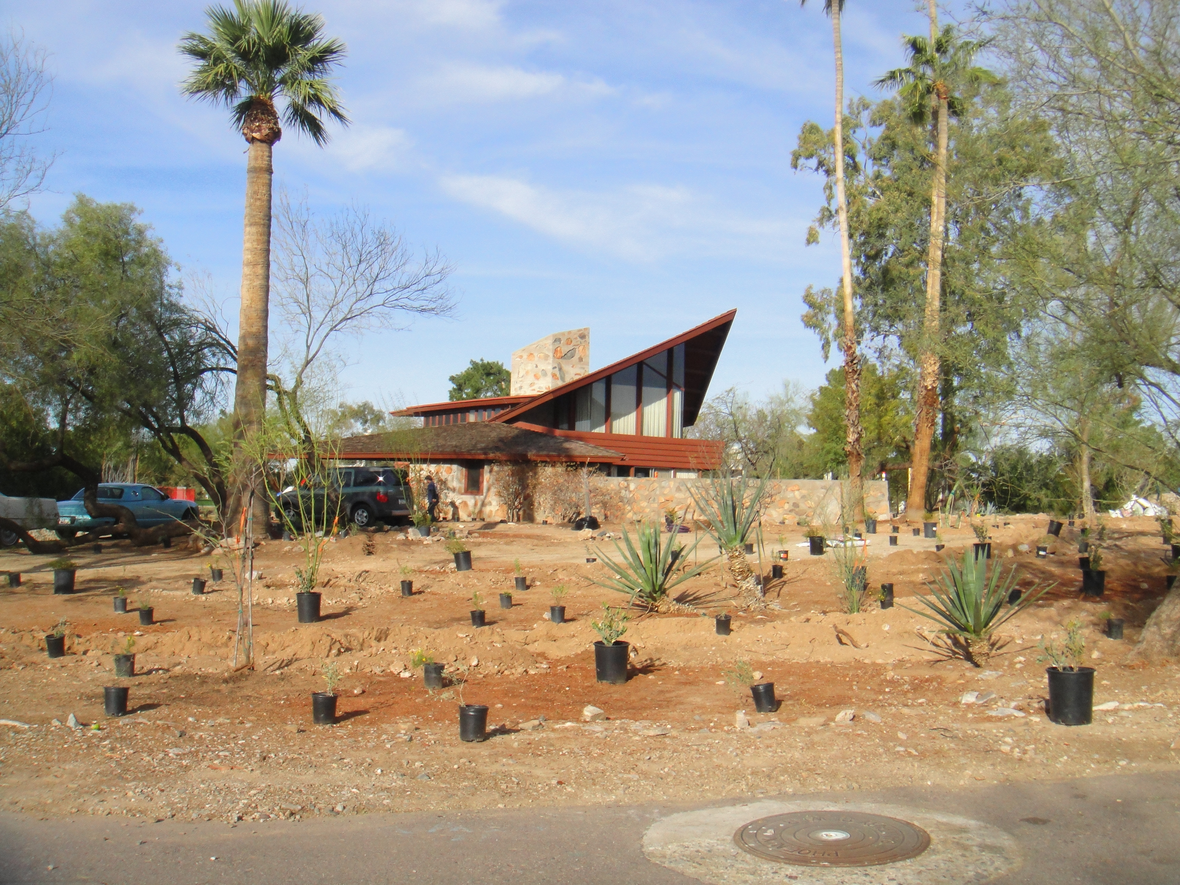 The Jorgine Boomer House in Phoenix, AZ designed by Frank Lloyd Wright